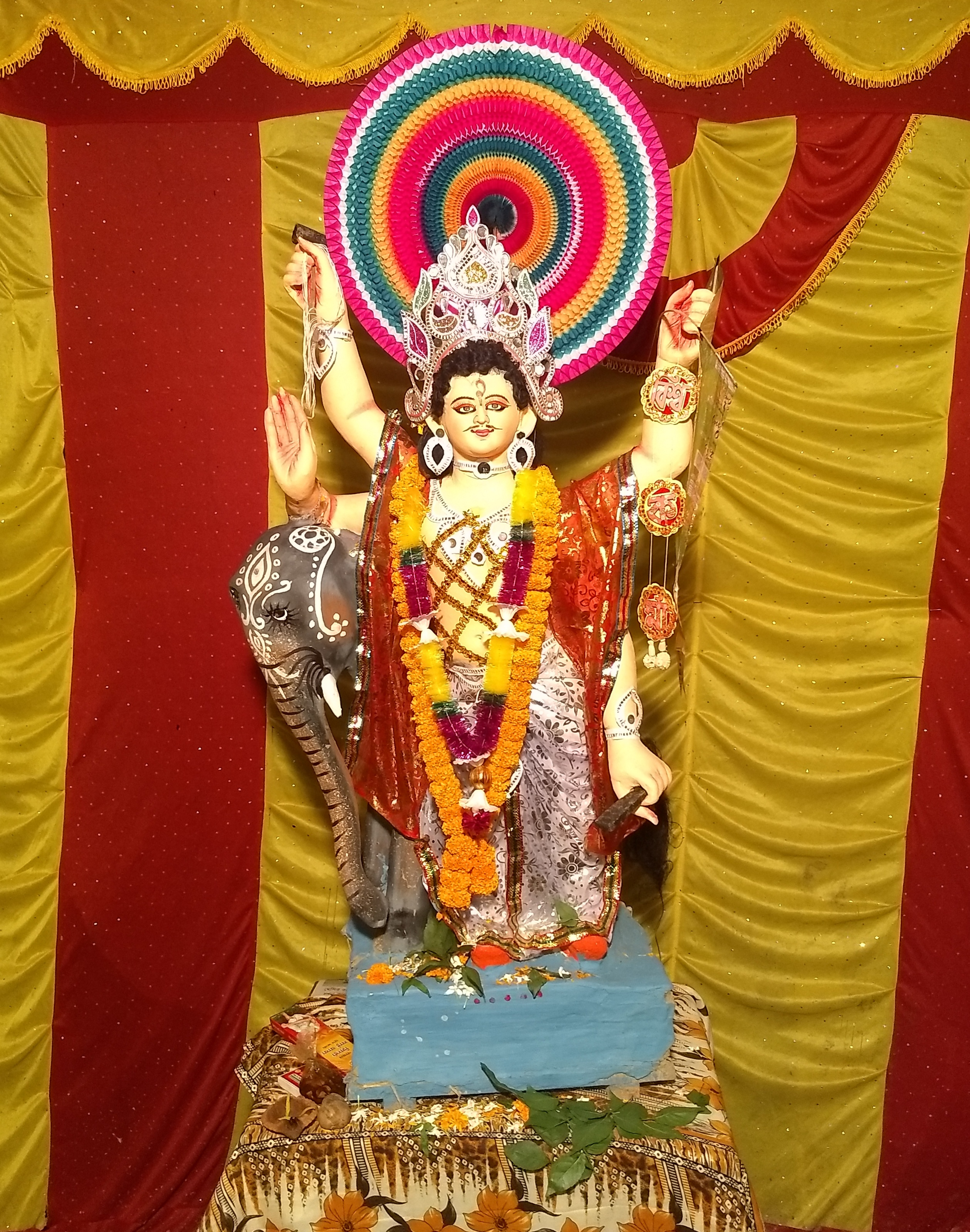 Bengali style Idol of Biswakarma